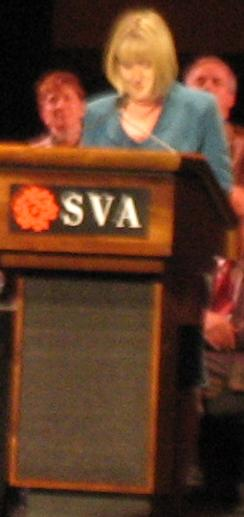 Lynne Truss. Cropped from original.